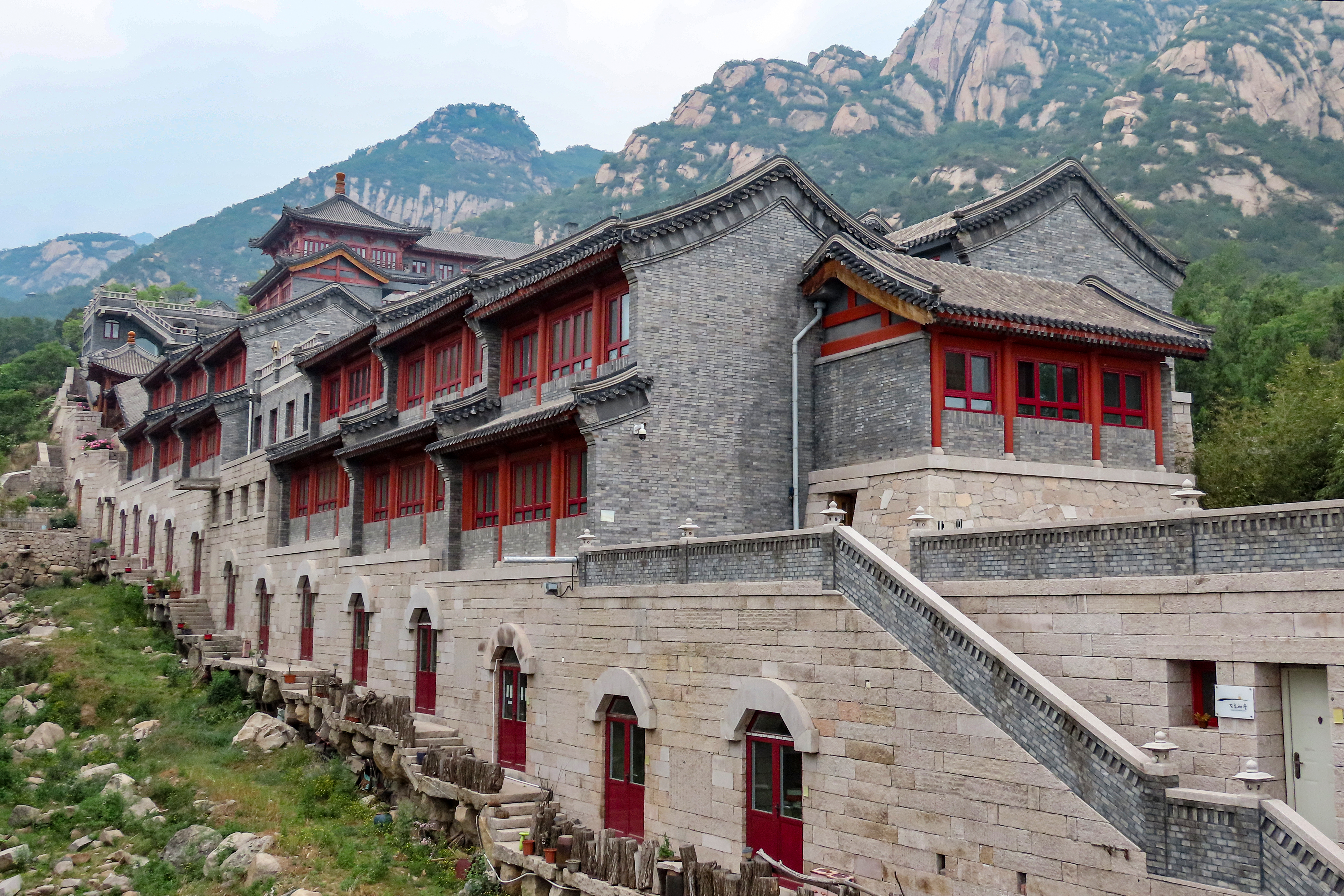 How is the temple going after the scandal...